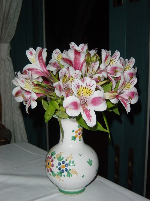 Alstroemeria I took this picture in a restaurant in the Big Island of Hawaii. Copyright release to wikipedia. Kowloonese 12:09, 21 Feb 2004 (UTC)